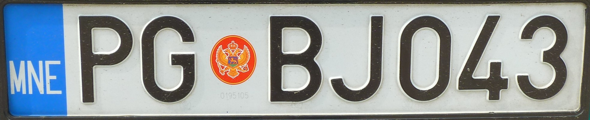 License plate from Montenegro since 2008, PG = Podgorica